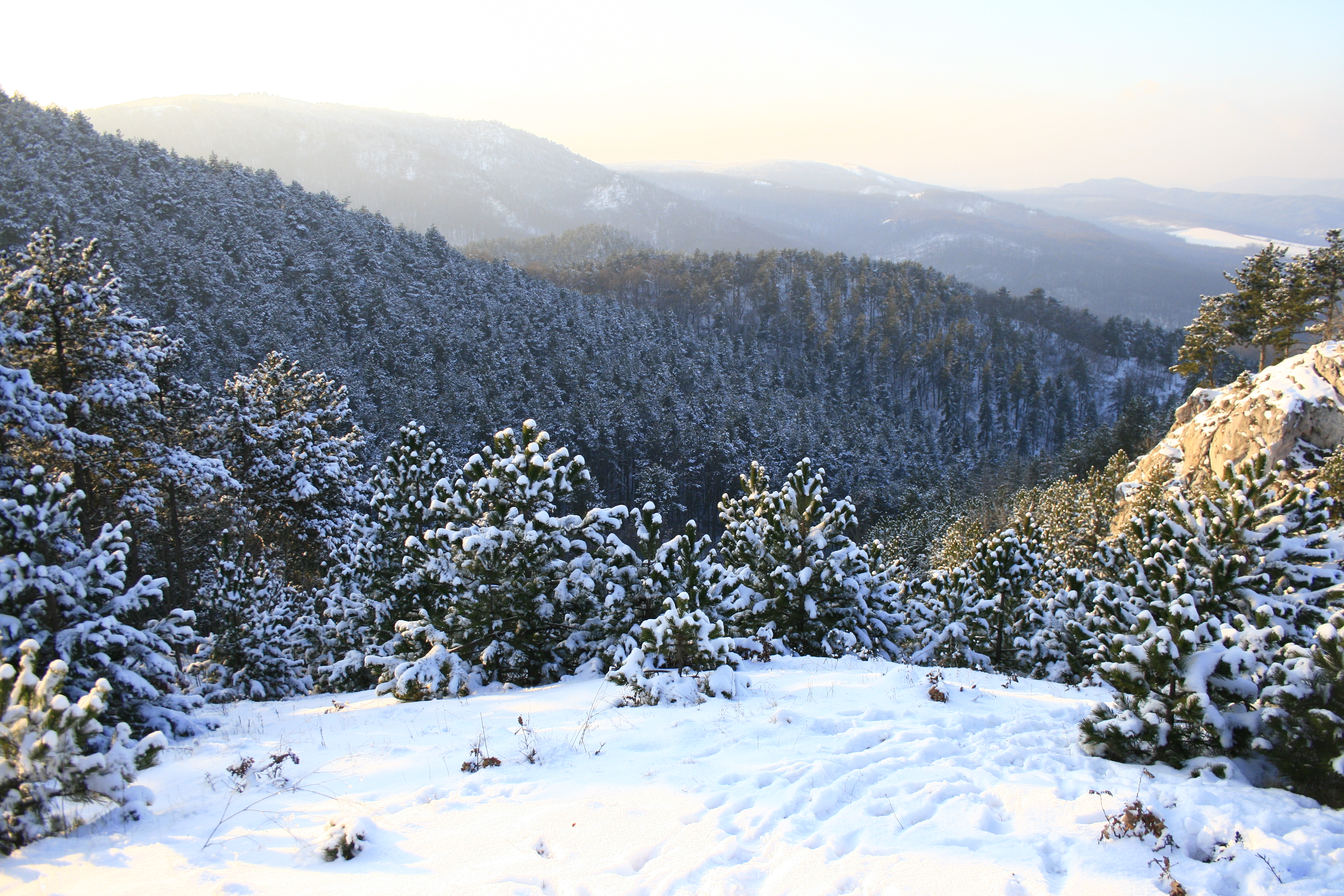 Pilis moutains from Nagykovacsi